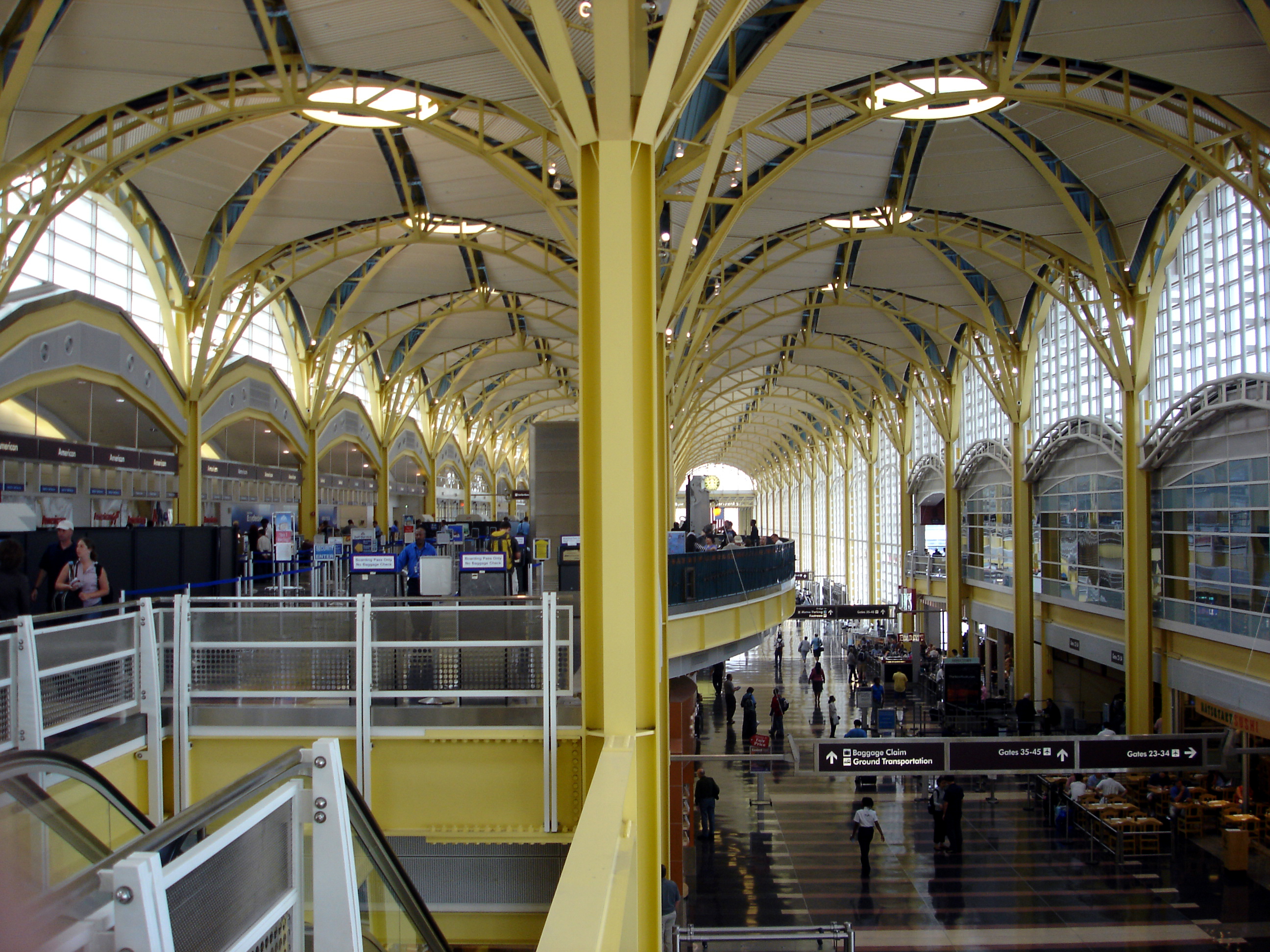 Ronald Reagan Washington National Airport